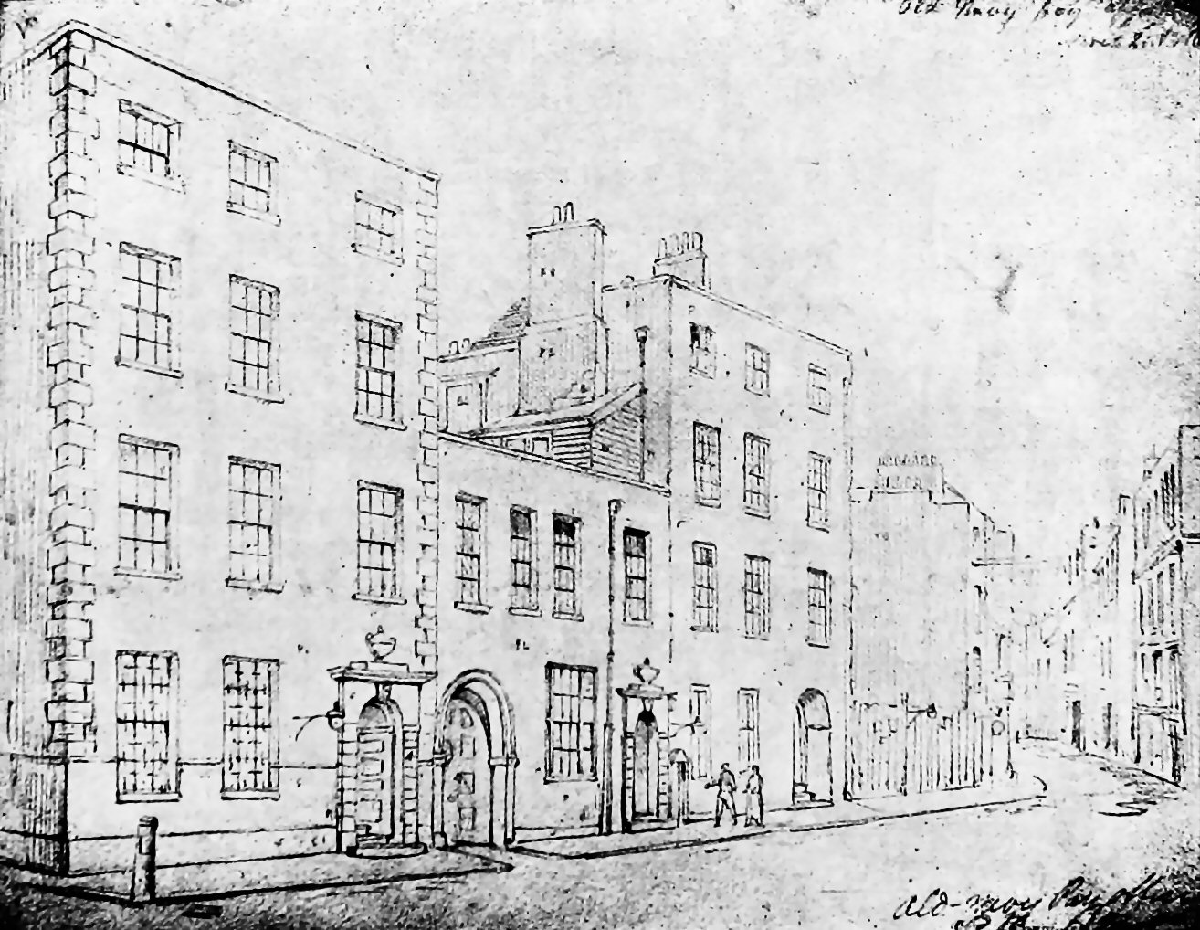 original caption: 'Navy pay office in old Broad Street as it appeared in 1816. From a pencil drawing by G. Shepherd, Crace Collection, British Museum.'